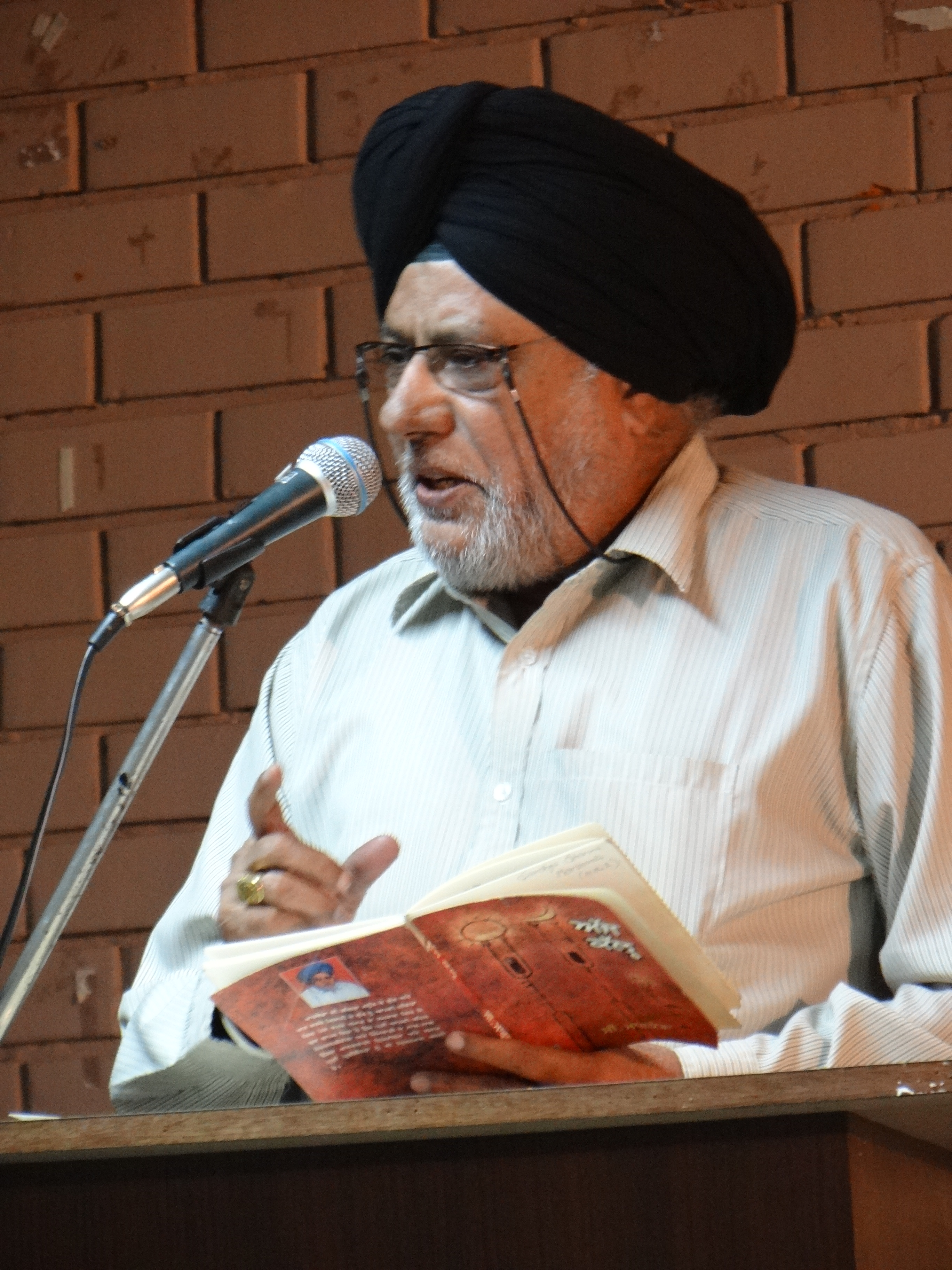 panjabi writer